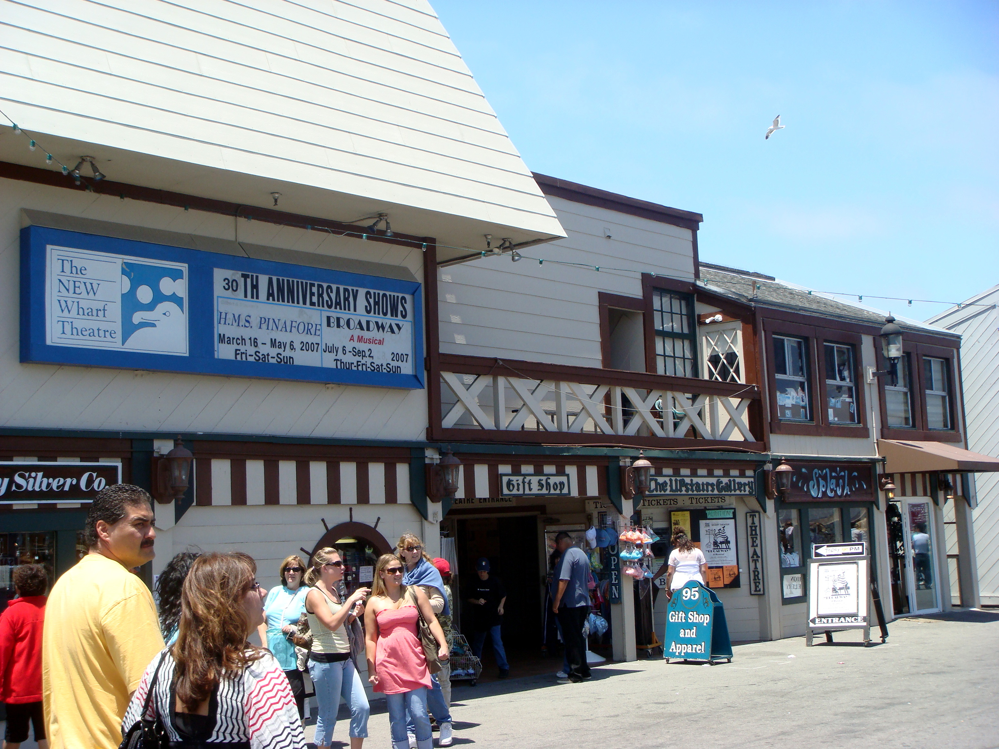 The exterior of the New Wharf Theater